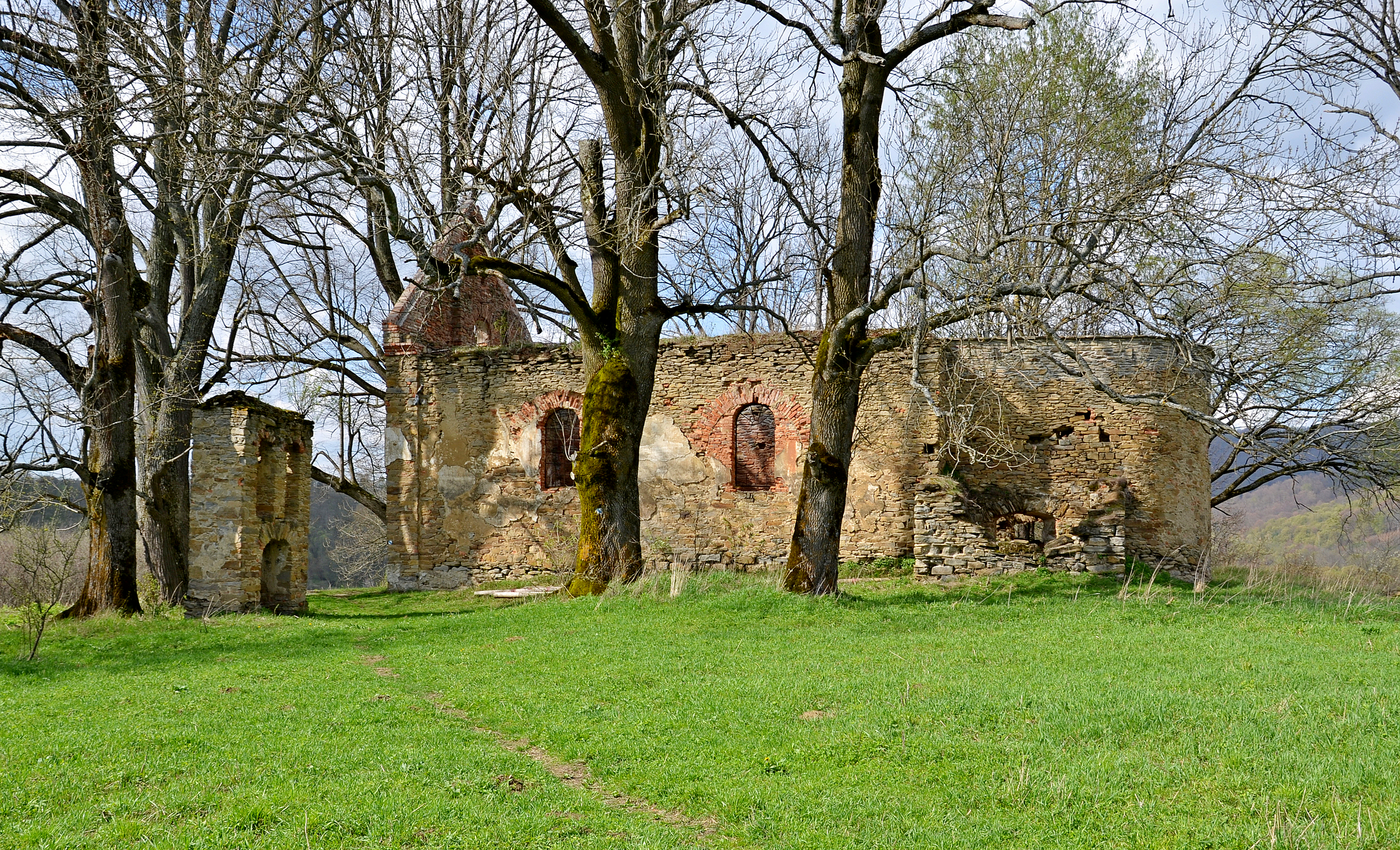 Krywe (Криве), Poland - ruins of the Saint Paraskeva church